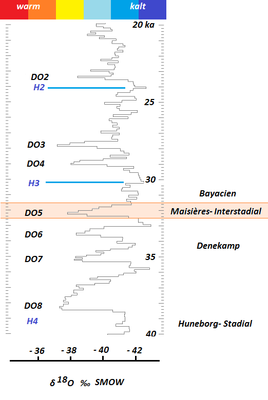 Diagram showing the position of the Maisières interstadial (marked in red) within the time range 20 to 40 ky BP. The δ18O values from GISP-2 follow the diagram of Wolfgang Weißmüller. The positions of the Dansgaard-Oeshger events DO2 to DO8 and the Heinrich events H2 to H4 are also indicated.